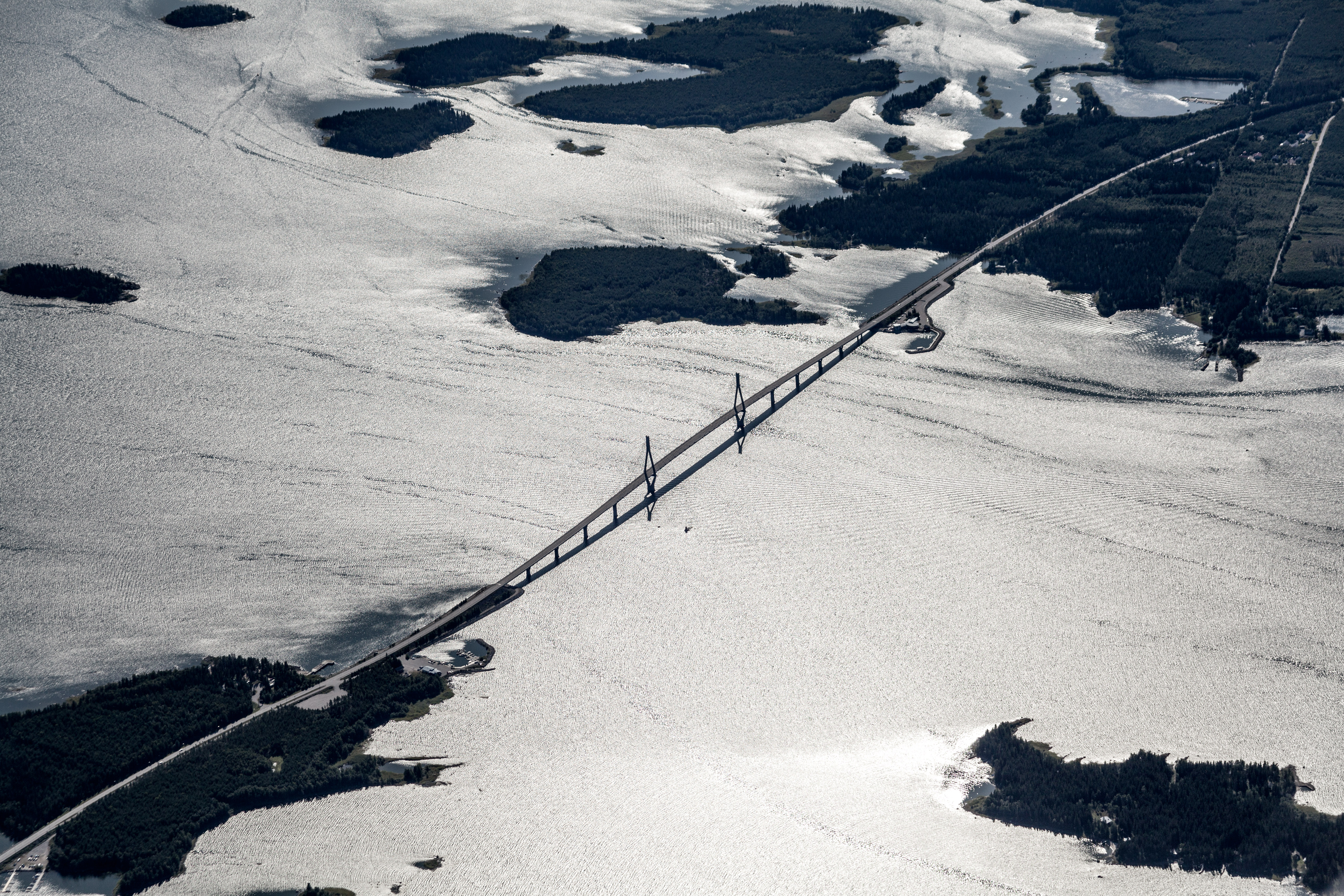 Raippaluoto (Replot) bridge from northeast. Major islands in picture: bottom left Fjärdskäret, bottom right Storgrund, top right Sommarön.